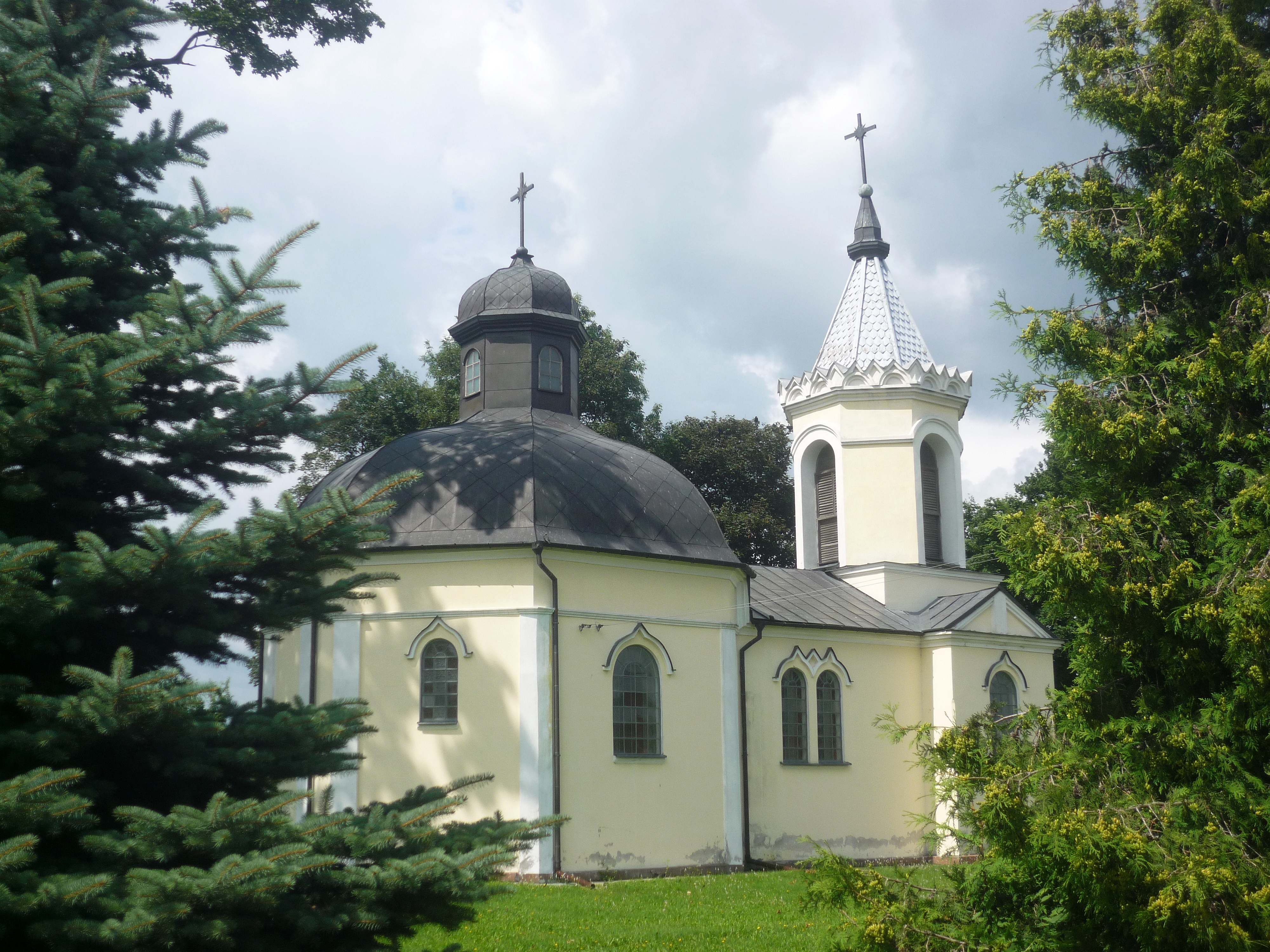 Ex-orthodox church, nowadays catholic church (secondary) of the Nativity of Our Lady in Wysokie Mazowieckie, Poland